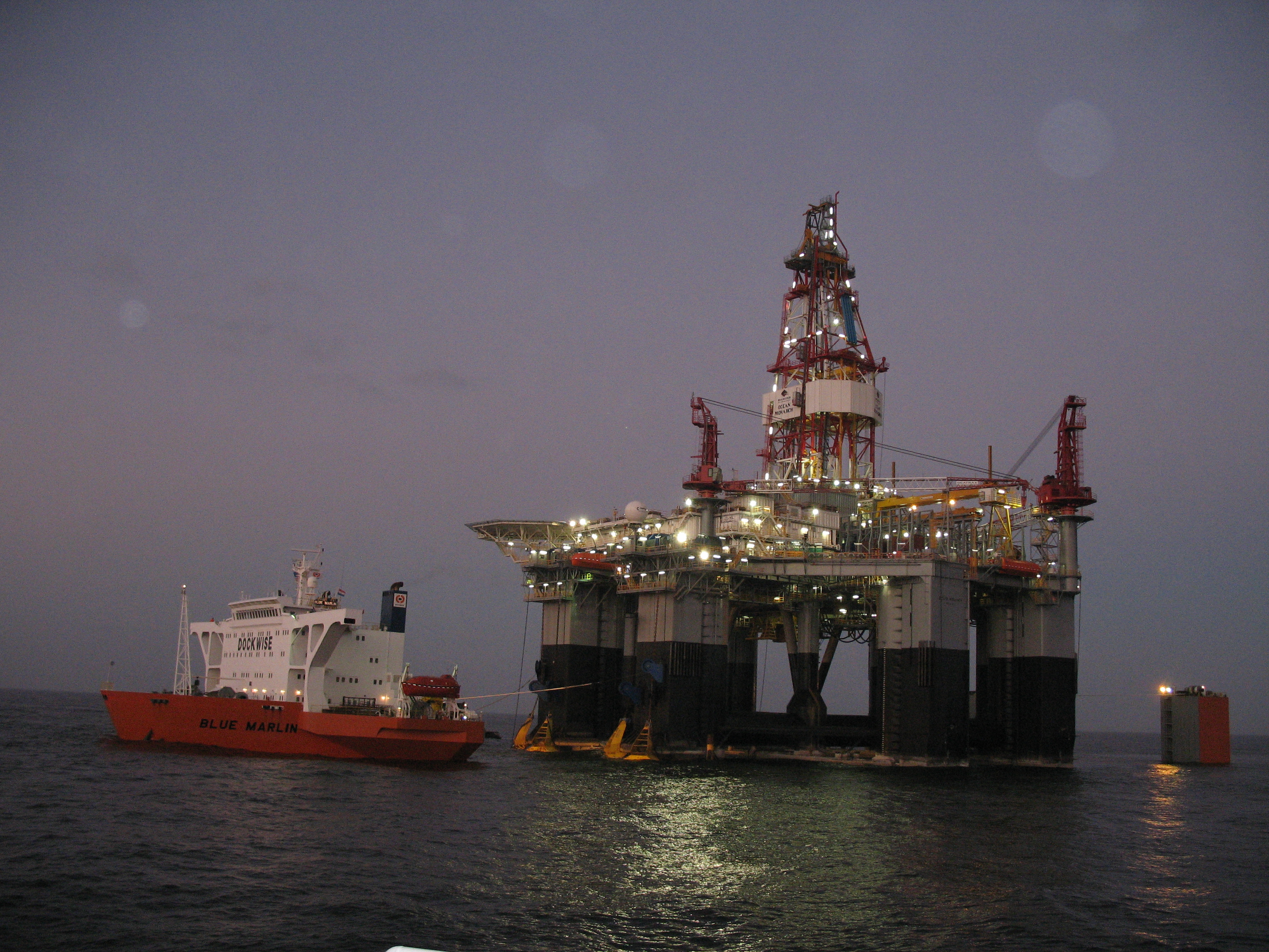 Dockwise HLV BLUE MARLIN preparing to offload OCEAN MONARCH near Port Fourchon, LA . Signet Maritime and Dolphin tugs assisting Information about Blue Marlin may be found at IMO 9186338. A ship can change name and flag state through time, but the IMO number remains the same through the hull's entire lifetime. As a result, it can be useful to identify a ship by using the IMO number.